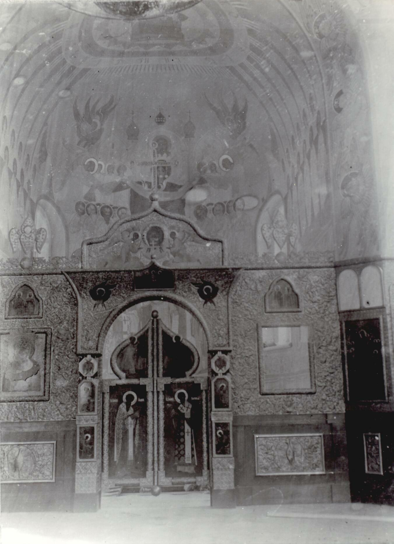 Tsarskoye Selo (Russia)